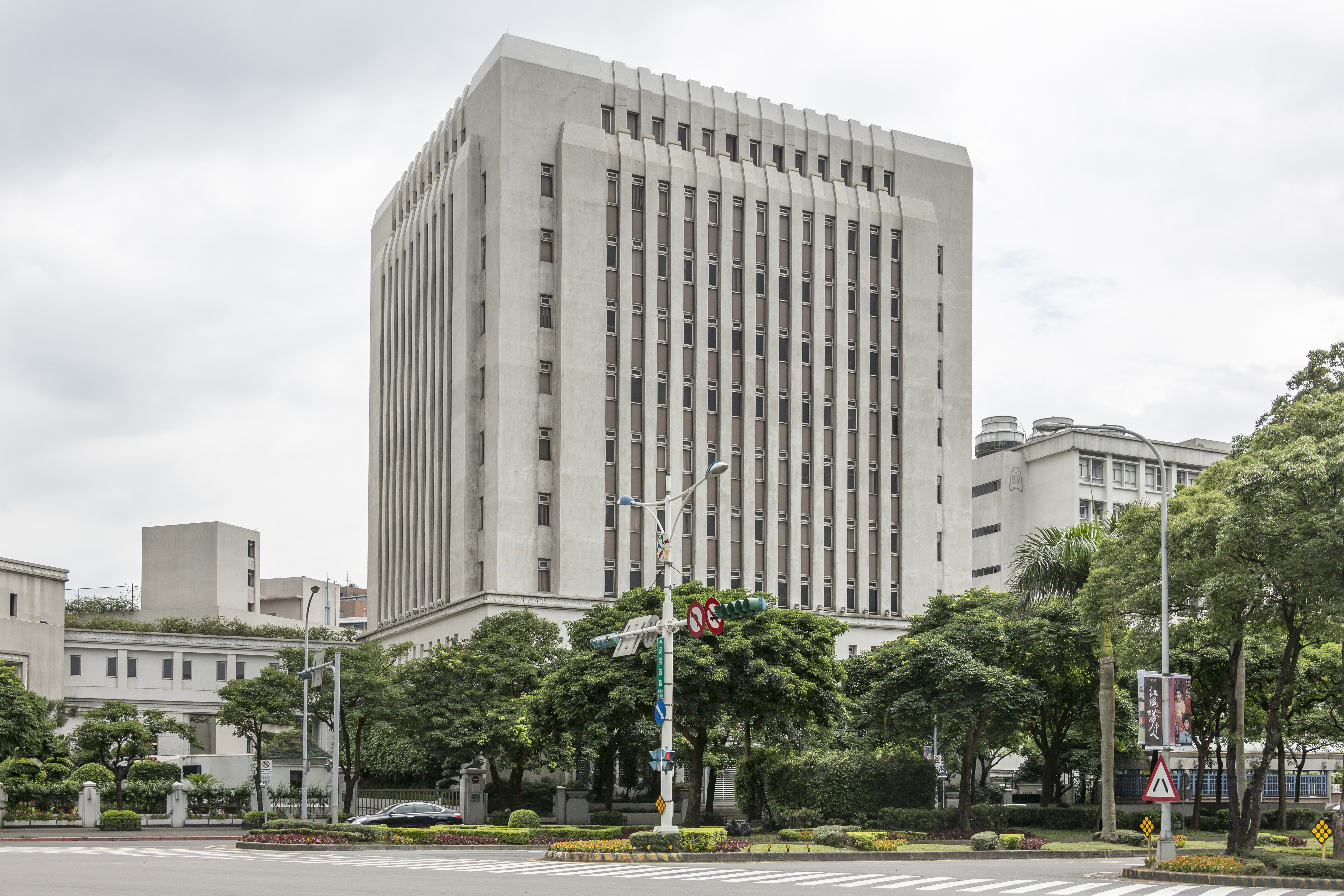 Taipei, Taiwan: The Central Bank of the Republic of China (Taiwan), known in English from 1924 to 2007 as the Central Bank of China, is the central bank of the Republic of China (Taiwan).